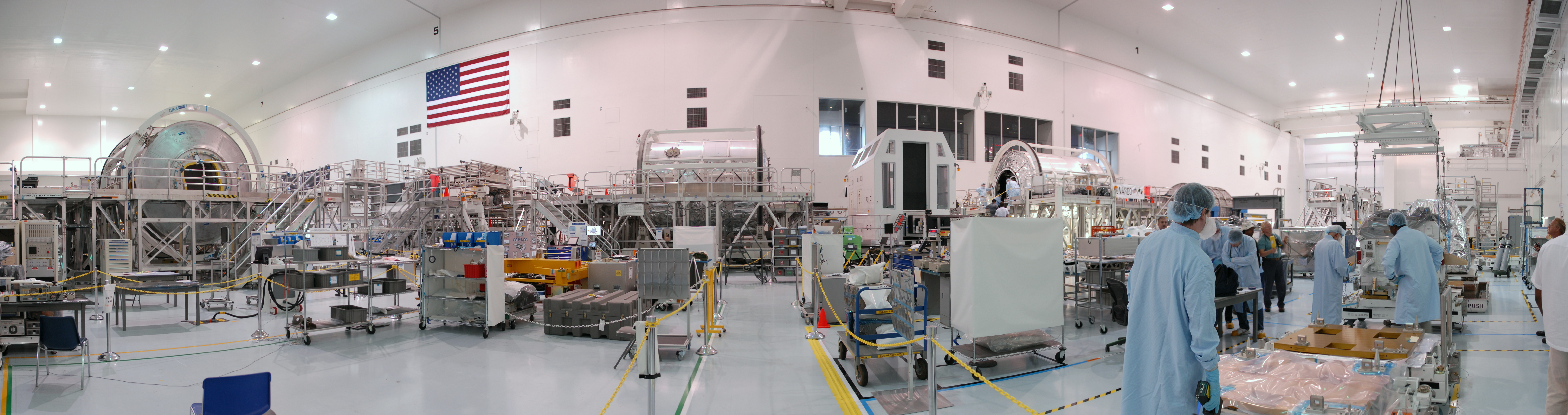 A beautiful panorama view of the high bay of the Space Station Processing Facility; NASA's state-of-the-art manufacturing building for the International Space Station at Kennedy Space Center